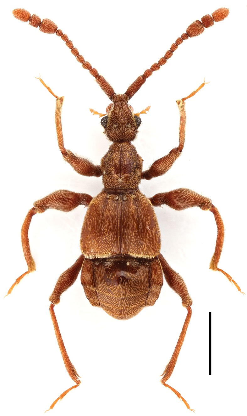 Male habitus of Labomimus jizuensis. Scale: 1.0 mm.